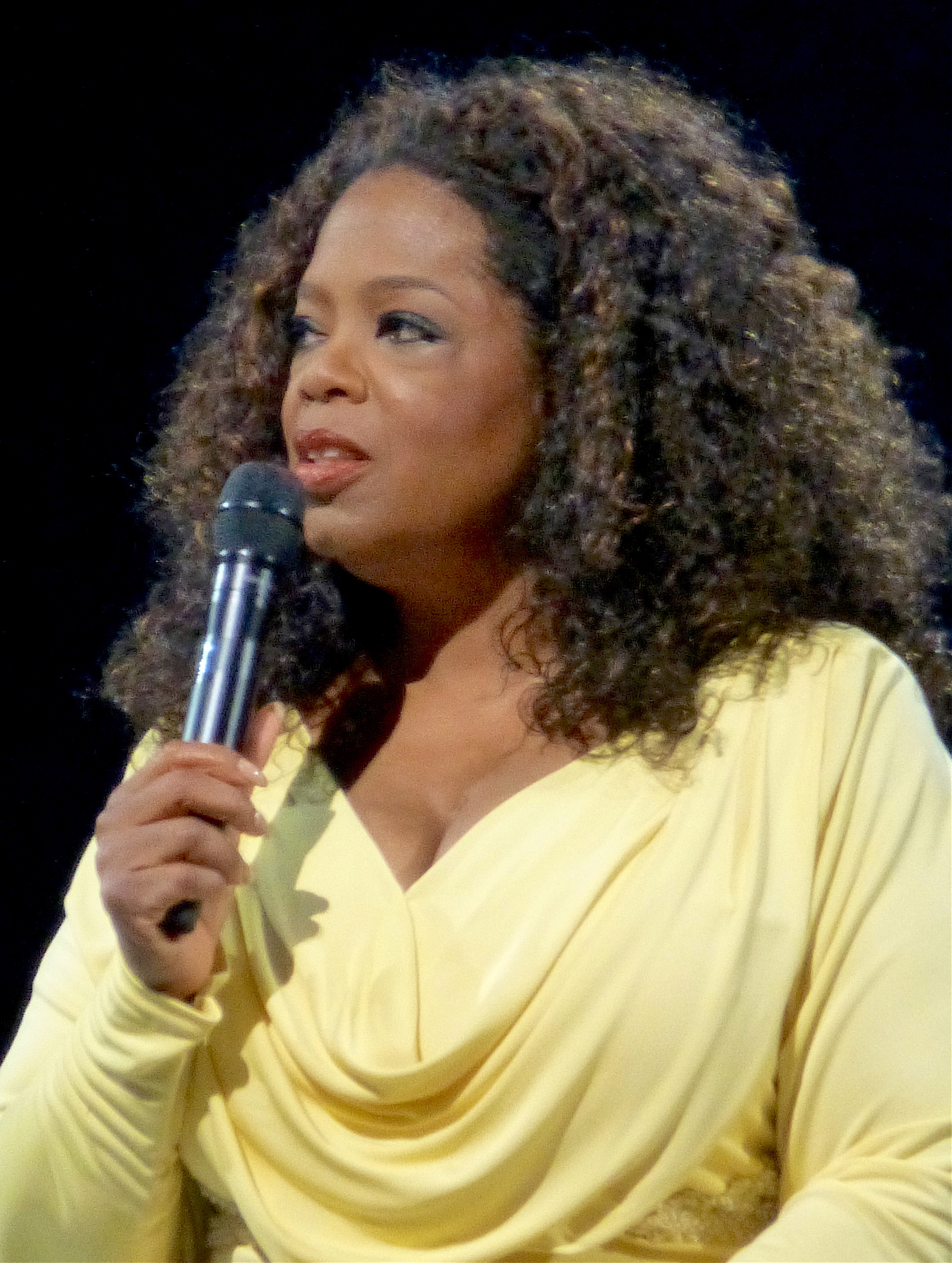 Oprah in Miami on her "The Life You Want" tour, October 2014.